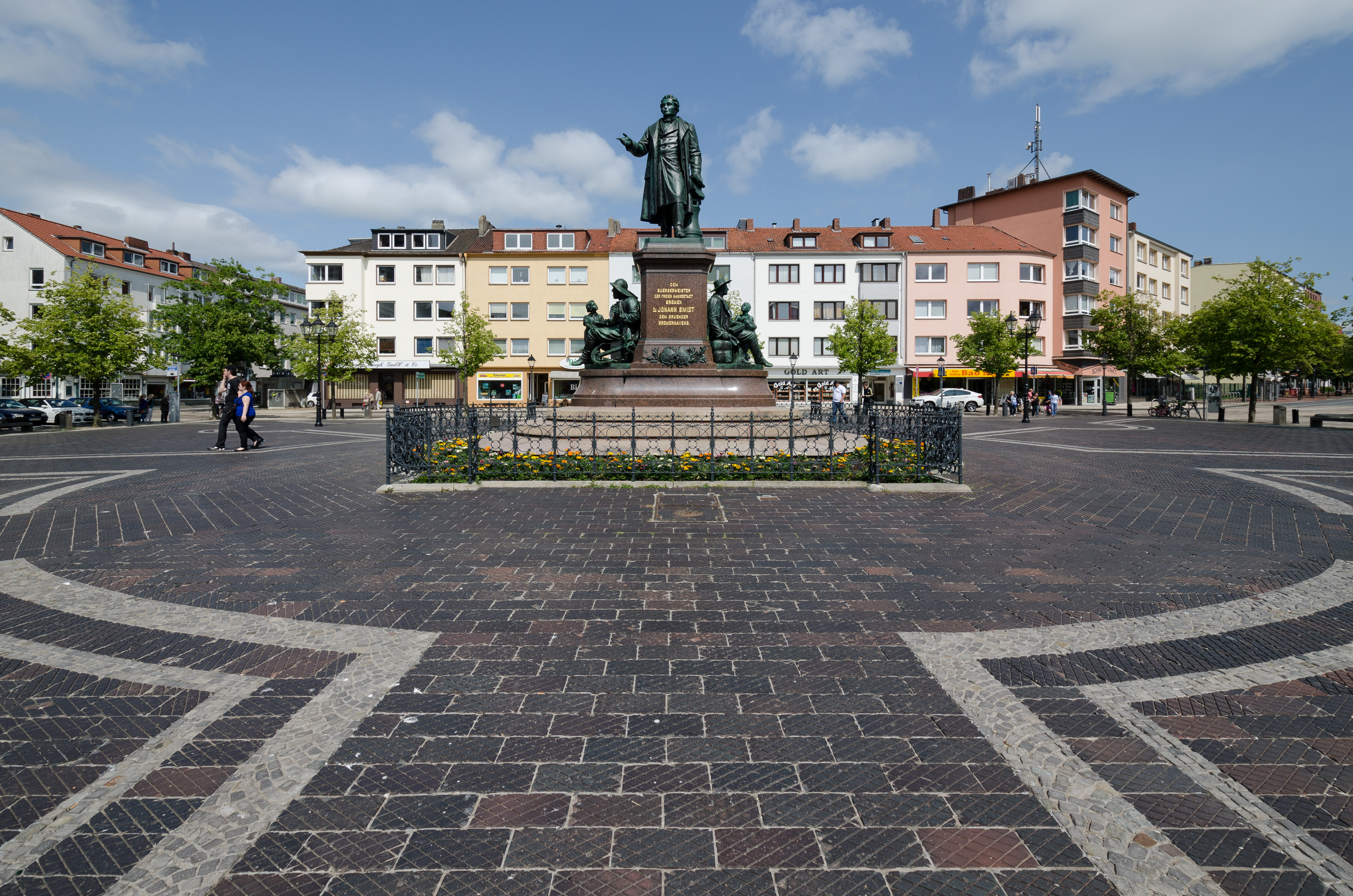 Place of Theodor Heuss in Bremerhaven with statue of the former mayor of Bremen Dr. Johann Smidt who is the founder of Bremerhaven